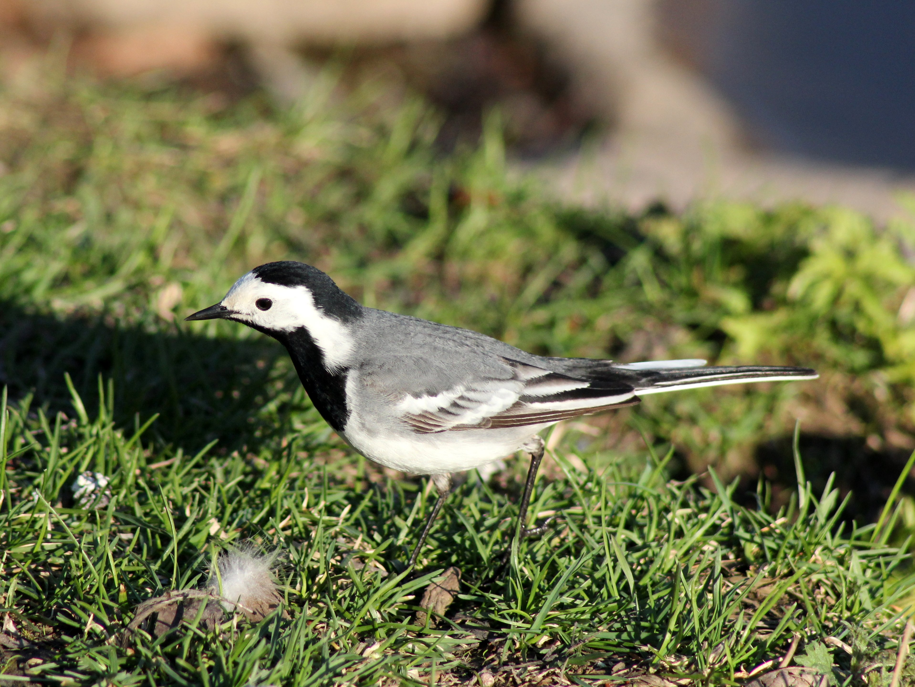 A White Wagtail (Motacilla alba) in Hupisaaret Park in Oulu.